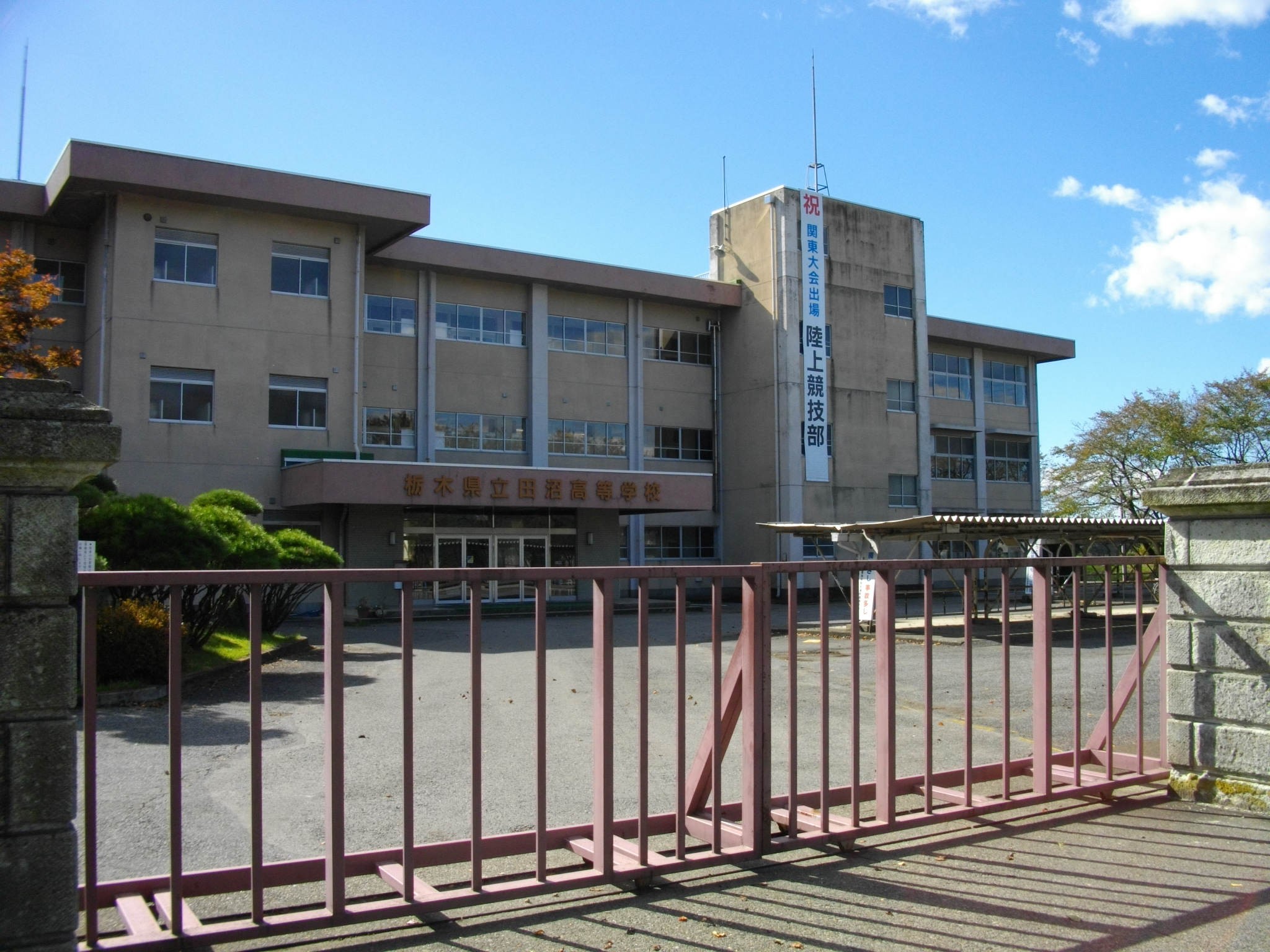 Tanuma High School